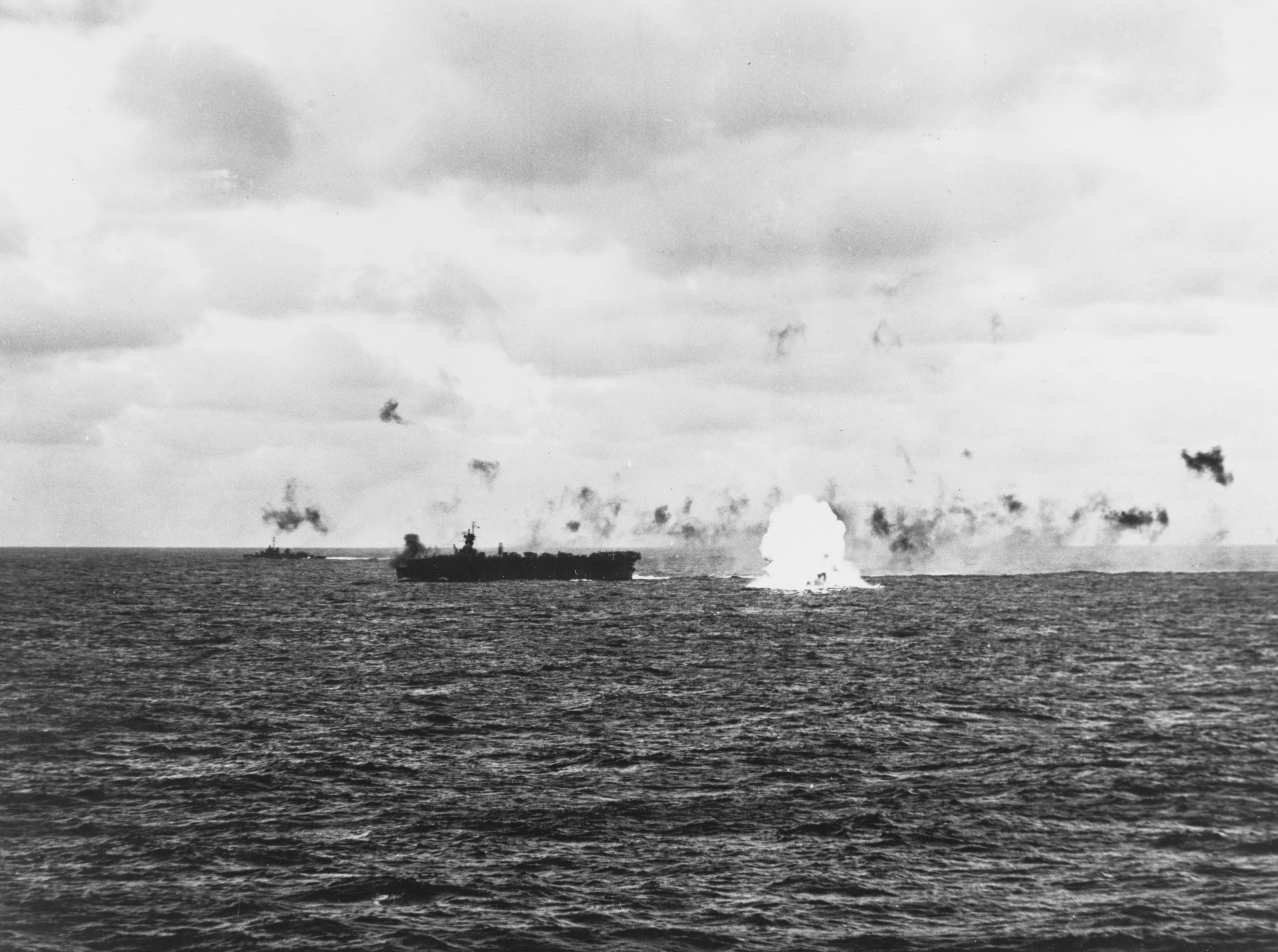 A Japanese bomber explodes as it crashes into the sea near the U.S. Navy light aircraft carrier USS Belleau Wood (CVL-24), during an attack on Task Group 58.2 off the Mariana Islands, 23 February 1944. The photo was taken from USS Essex (CV-9).